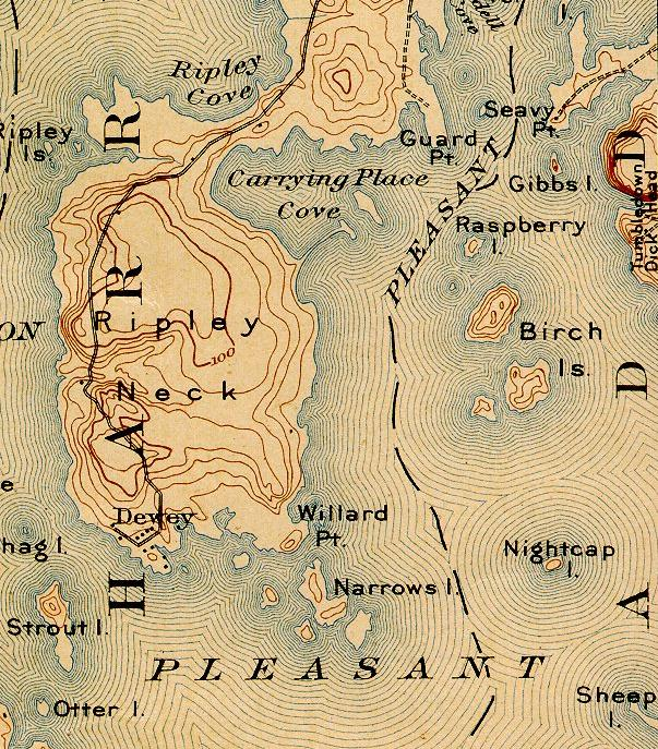 Excerpt of Cherryfield, ME Quadrangle USGS 1904 map, southeast corner, showing Birch Islands in Pleasant Bay, Maine